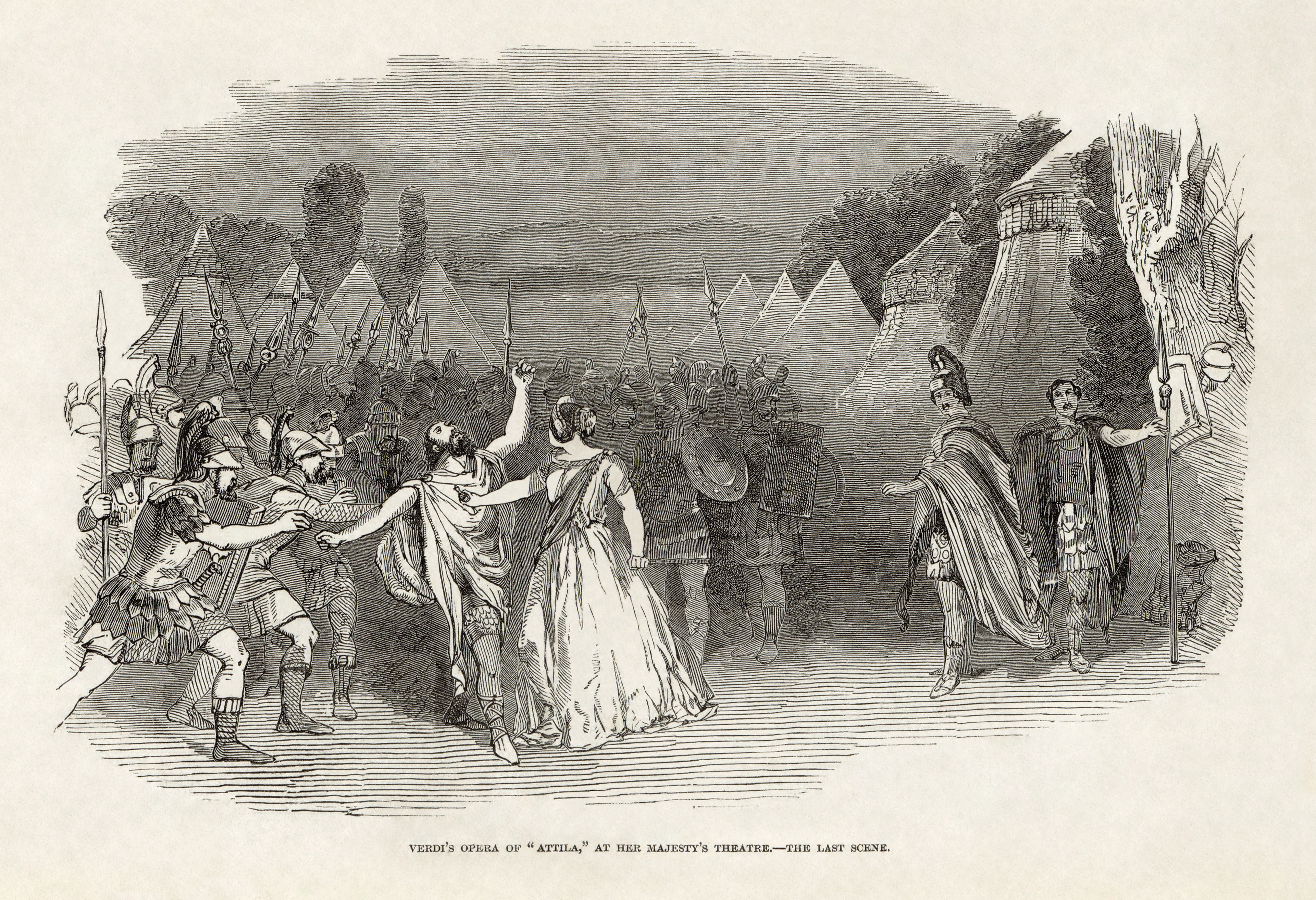 Giuseppe Verdi's Attila at Her Majesty's Theatre, London, from The Illustrated London News of April 15, 1848.